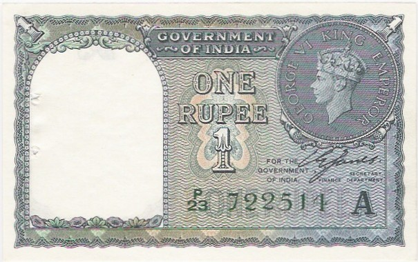 1944 British India one rupee with King George VI silver coin on right